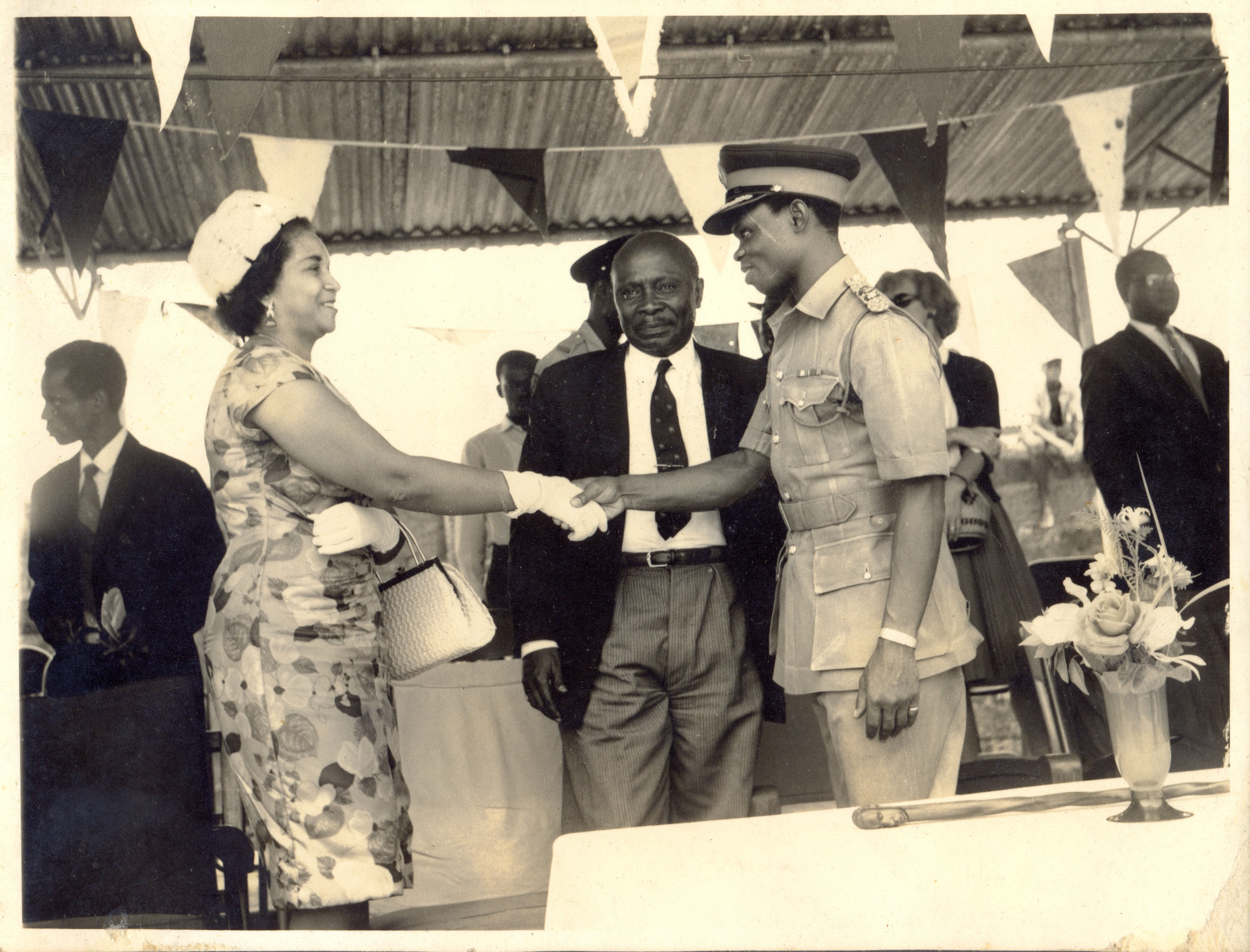 introduction to David Ejoor